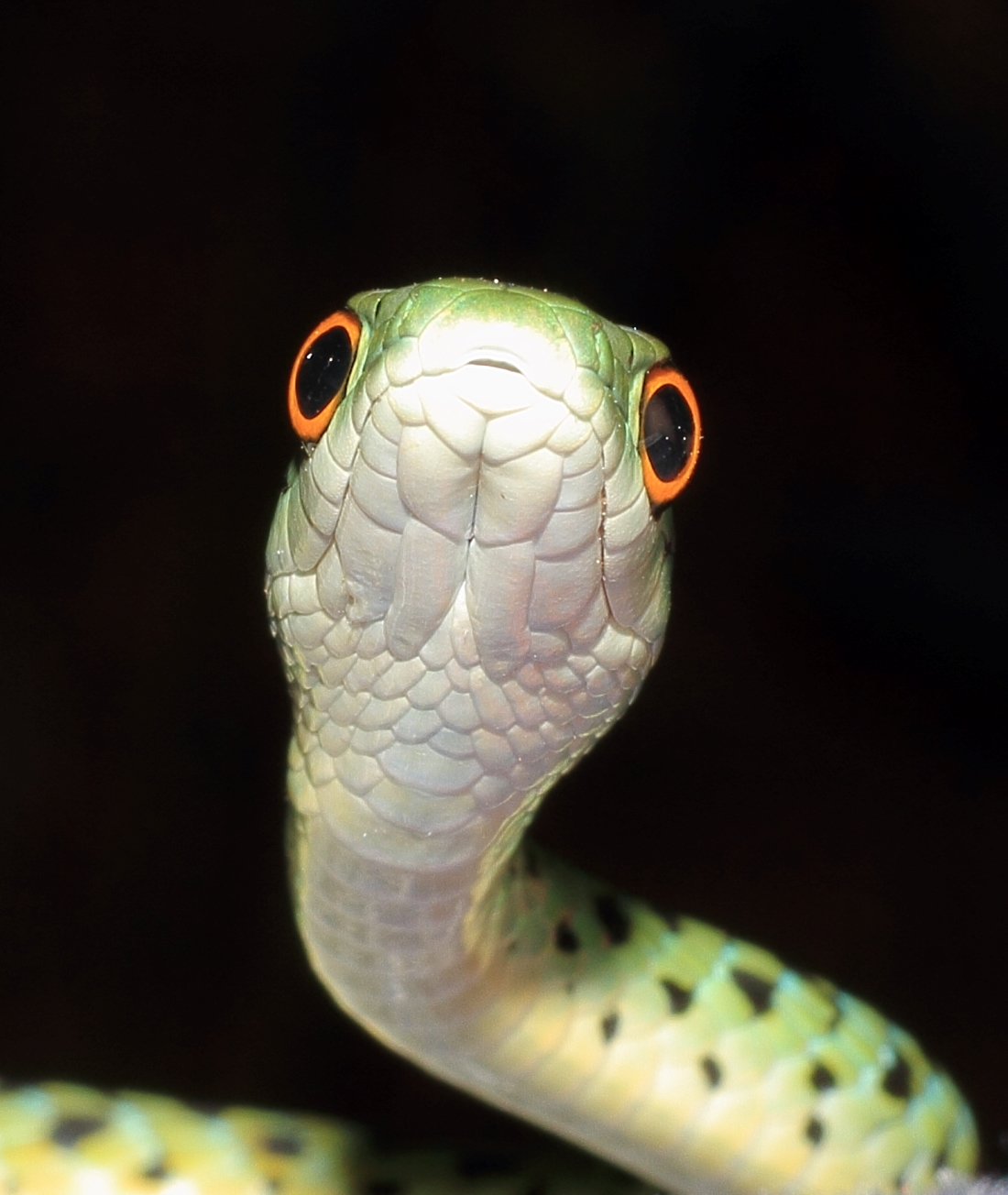 Spotted Bush Snake (Philothamnus semivariegatus) seen from below. This picture illustrates the excellent field of view offered by the forward-set eyes.